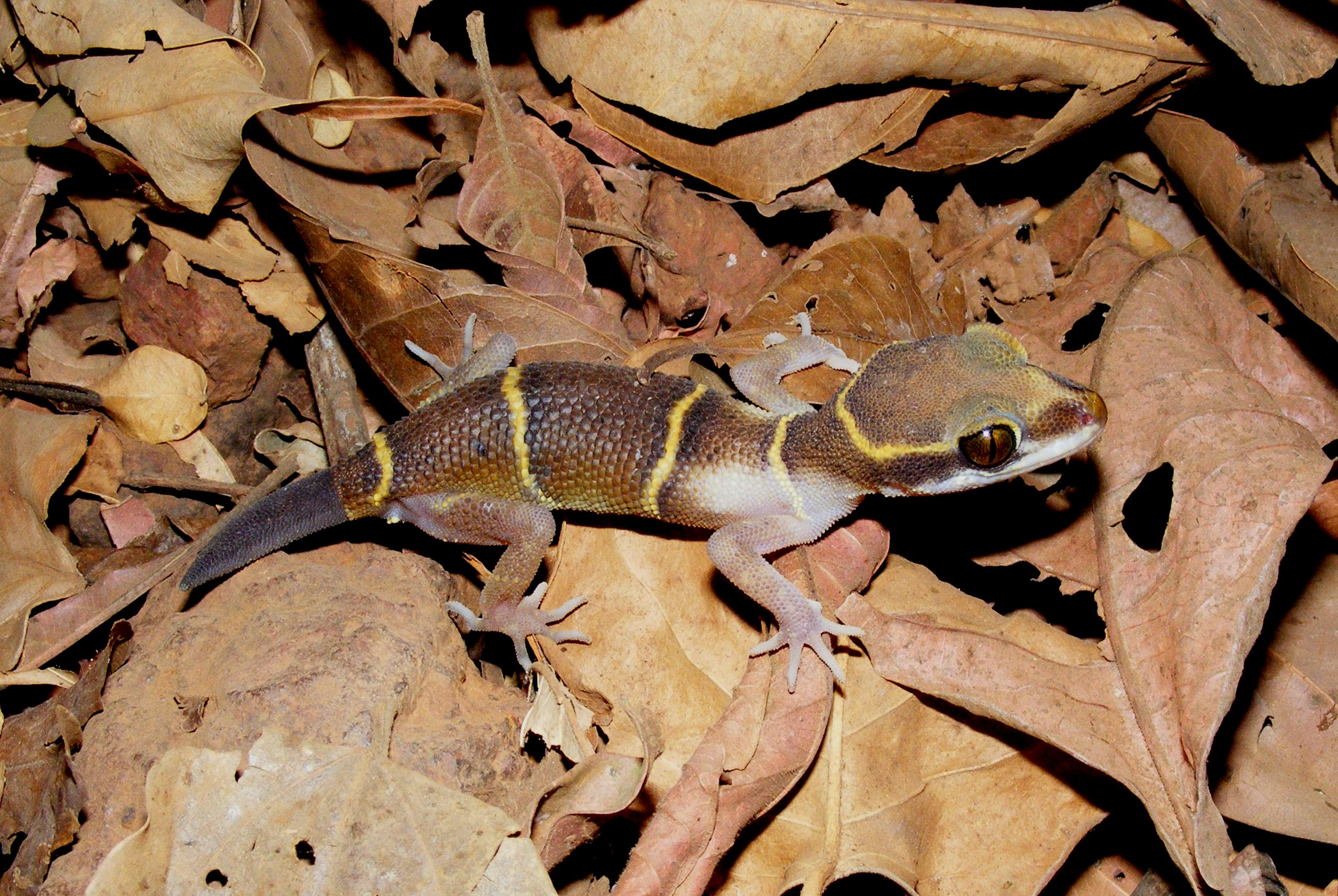 Deccan Banded Gecko (Geckoella deccanensis) Phansad Wildlfie Sanctuary, Maharashtra